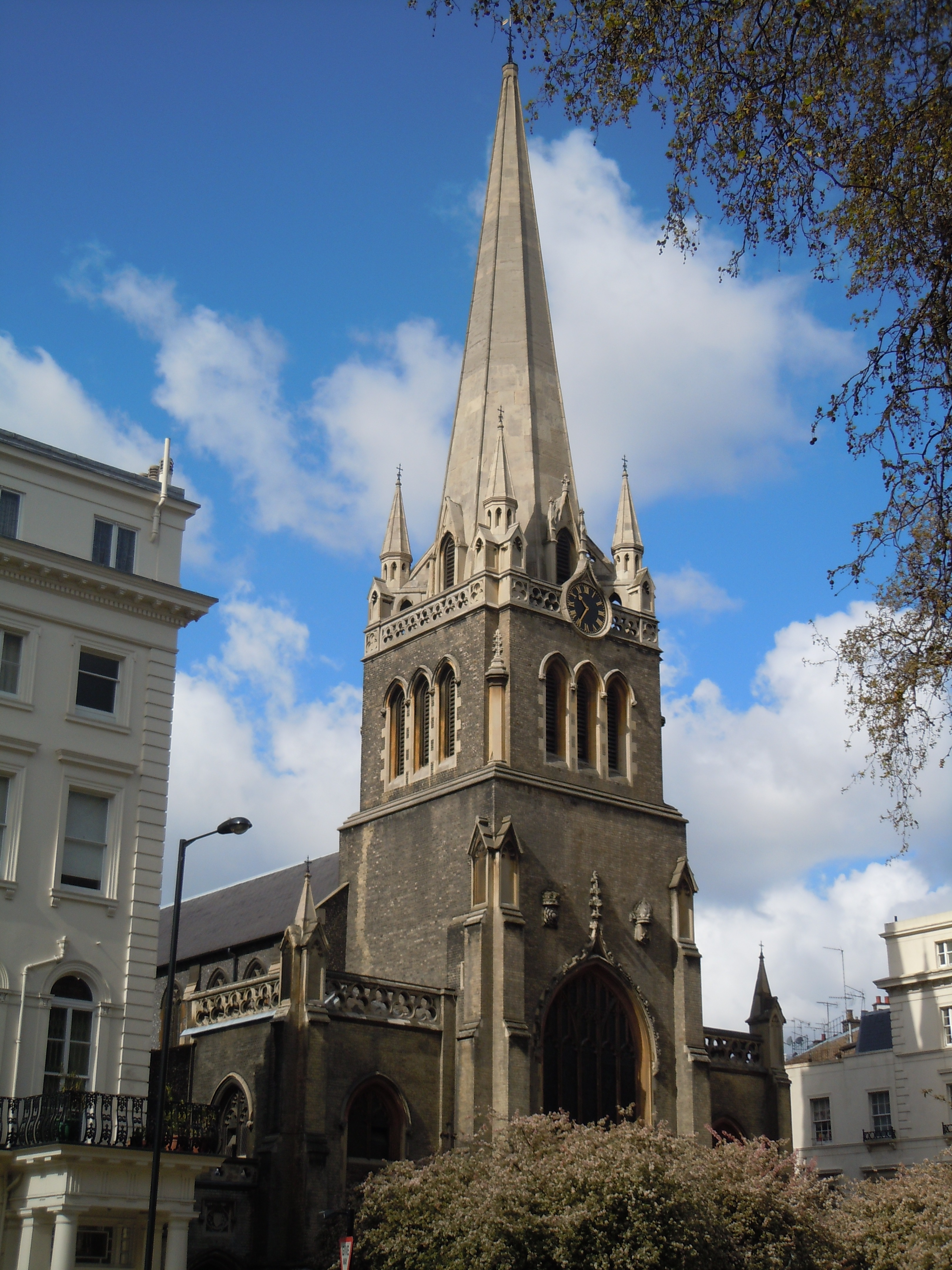 East tower and spire of St James' parish church, Sussex Gardens, Paddington, London W2, seen from the east